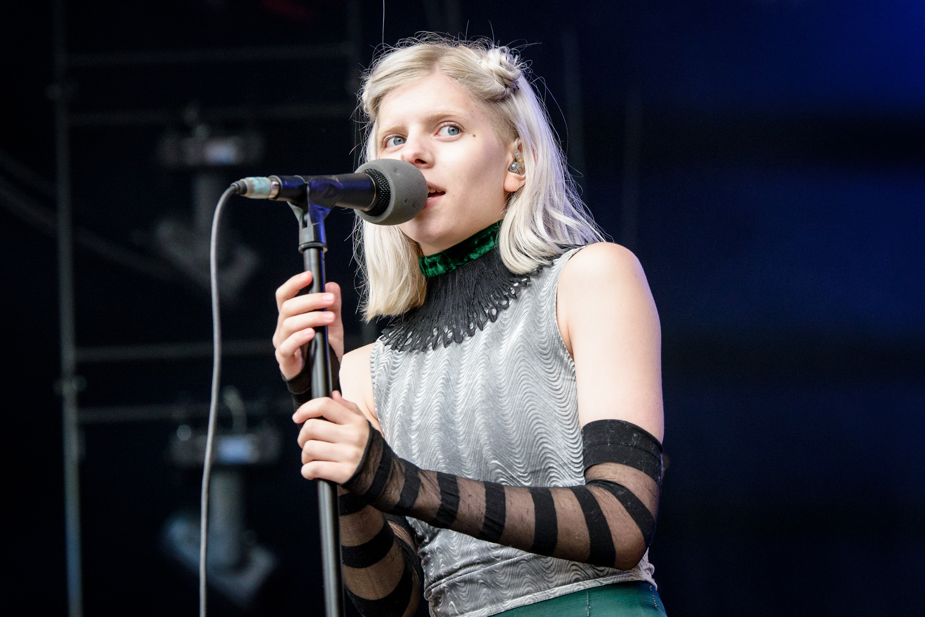 Aurora live @ Pulsopenair 2016